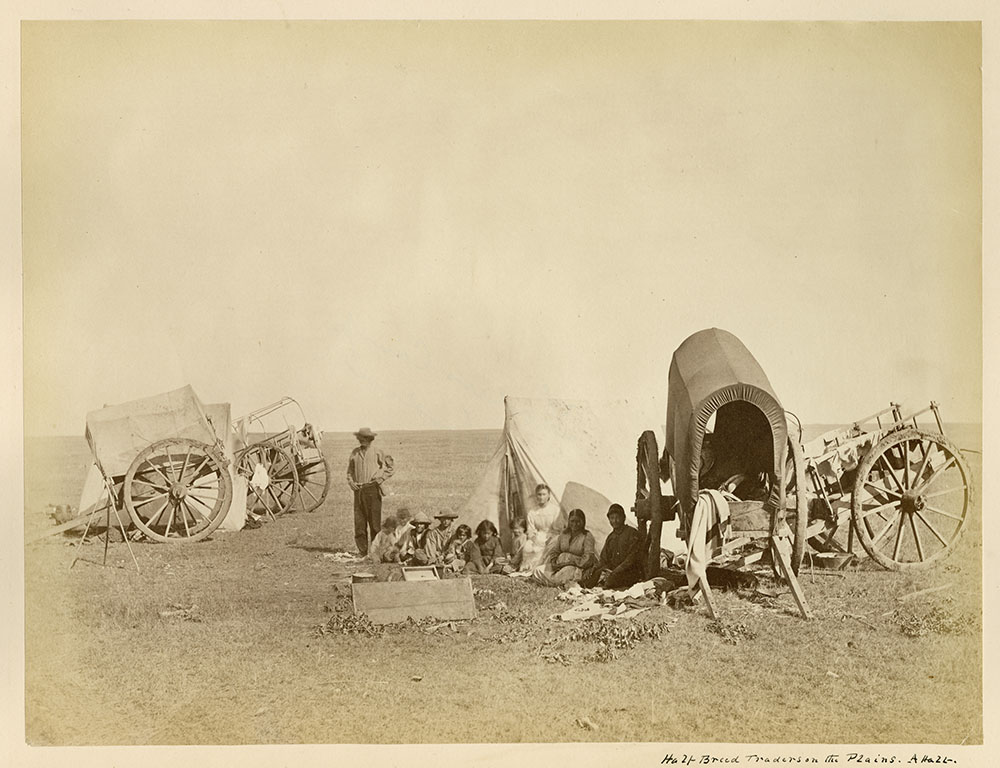 Title / Titre : Métis Traders on the Plains / Marchands de fourrures métis sur les Plaines Description : The two-wheeled Red River cart is a uniquely Métis symbol. It was first used to carry meat from the buffalo hunt and in farm work. Later, the carts were used to form brigades, transporting goods over long distances. The wheels could be removed, converting the carts into makeshift rafts. / La charrette à deux roues de la rivière Rouge est propre aux Métis. On l’utilisait initialement pour effectuer les travaux agricoles et transporter la viande de bison au retour de la chasse. Plus tard, des caravanes de charrettes furent formées pour transporter des marchandises sur de longues distances. Grâce à ses roues amovibles, la charrette pouvait être convertie en radeau. Creator(s) / Créateur(s) : Unknown / Inconnu Date(s) : 1872-1873 Reference No. / Numéro de référence : MIKAN 3248493, 4848154 Location / Lieu : Unknown / Inconnu Credit / Mention de source : Library and Archives Canada, e011156506_s1 / Bibliothèque et Archives Canada, e011156506_s1